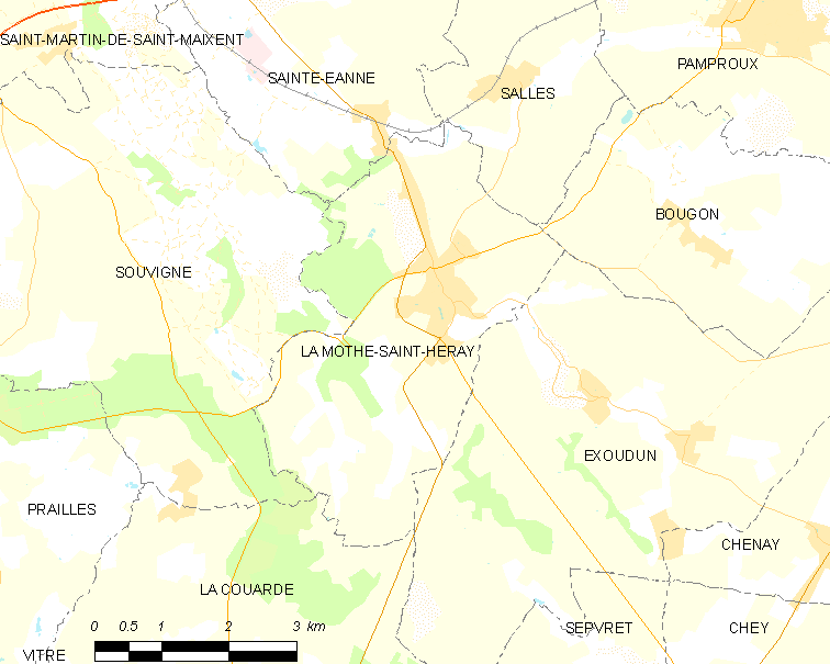 Map of French municipality La Mothe-Saint-Héray